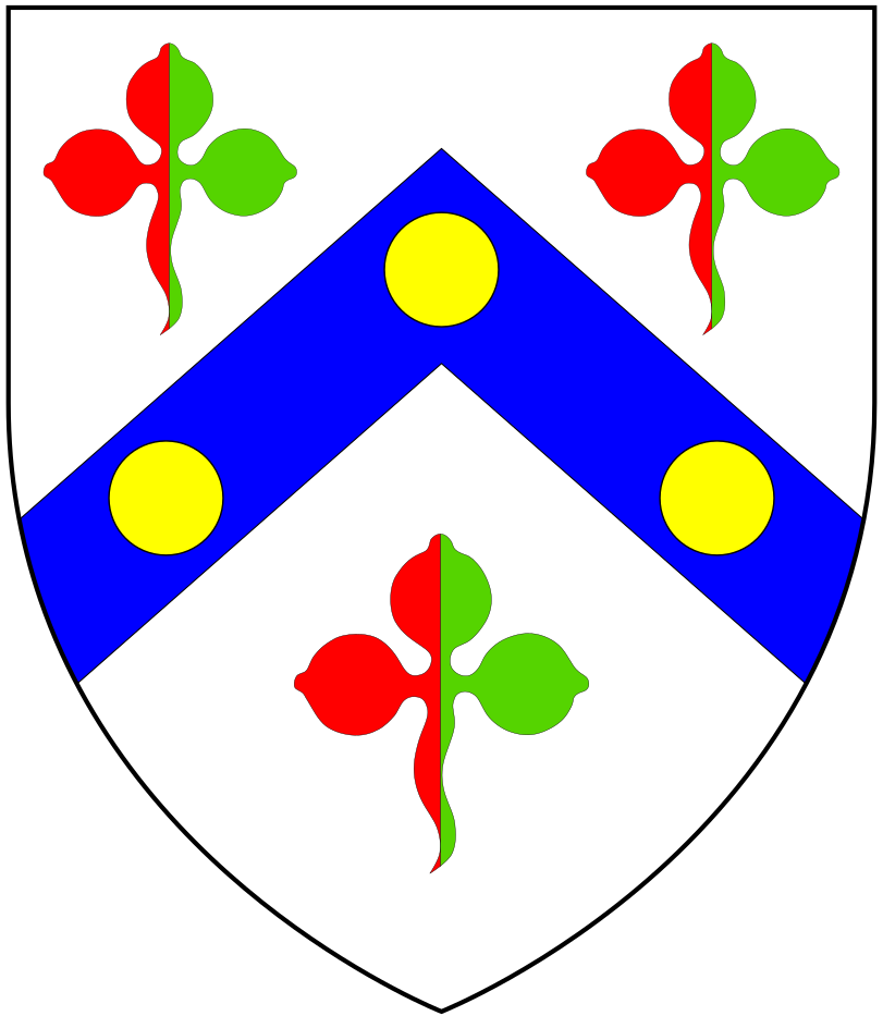 Arms of Rowe of Kingston in the parish of Staverton, Devon: Argent, on a chevron azure between three trefoils slipped per pale gules and vert three bezants (Vivian, Lt.Col. J.L., (Ed.) The Visitations of the County of Devon: Comprising the Heralds' Visitations of 1531, 1564 & 1620, Exeter, 1895, p.660); "gules and vert counterchanged" unclear as to how any counterchanging is possible, thus ignored in this image. Also, Rowe arms quartered by Hill, Marquess of Downshire, mention no counterchanging, although omit the bezants.